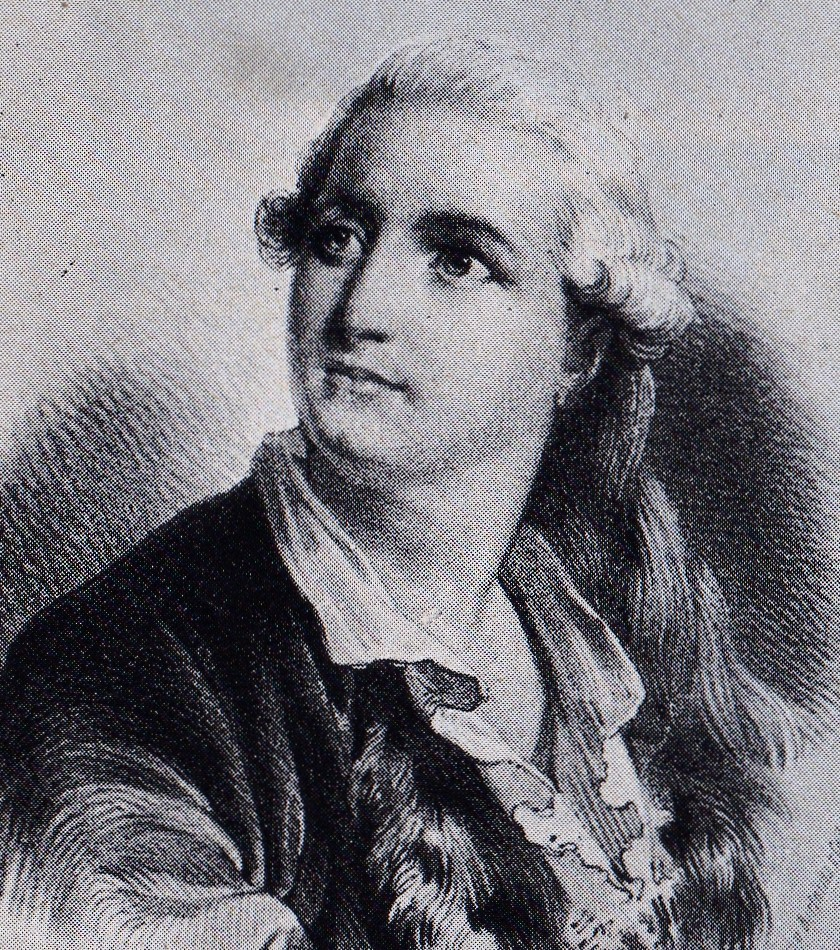 Painted Portrait of the choreographer Jean-Pierre Dauberval as Lise in the ballet "La Fille Mal Gardee", painted by an unknown artist circa 1790.